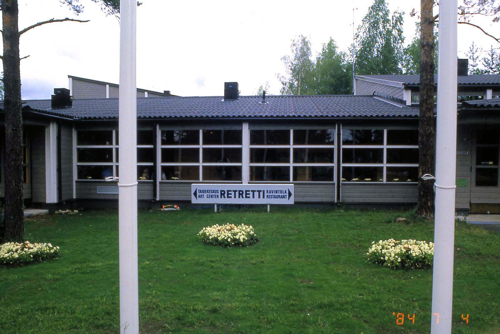 Retretti Art Museum in Punkaharju, Finland in 1984